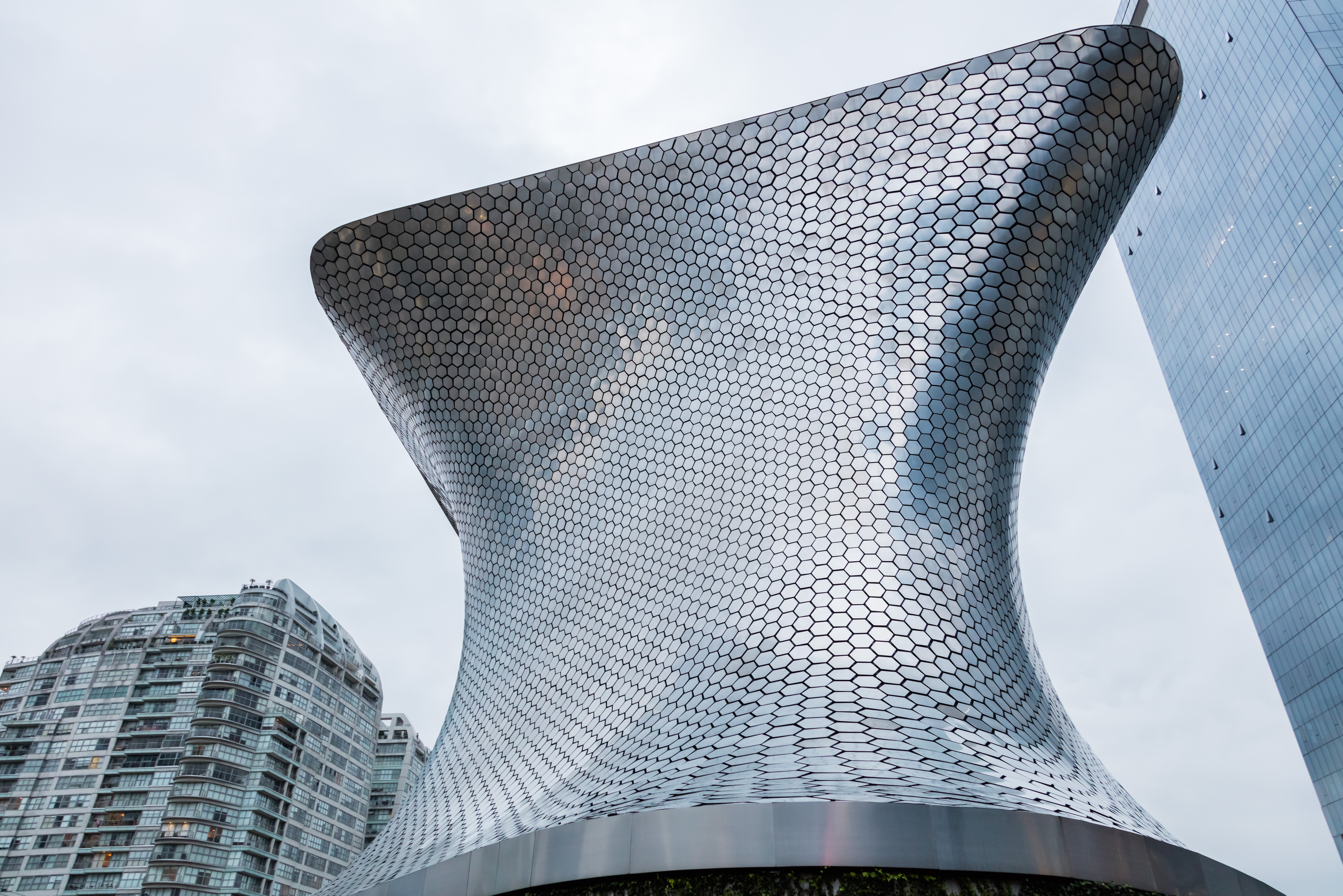 Soumaya museum, Mexico City, Mexico